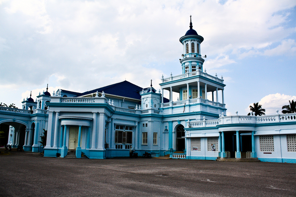 Sultan Ibrahim Jamek Mosque is a historical mosque in the town of Muar in the Malaysian state of Johor. It is situated along Jalan Petri, close to mouth of Muar River.